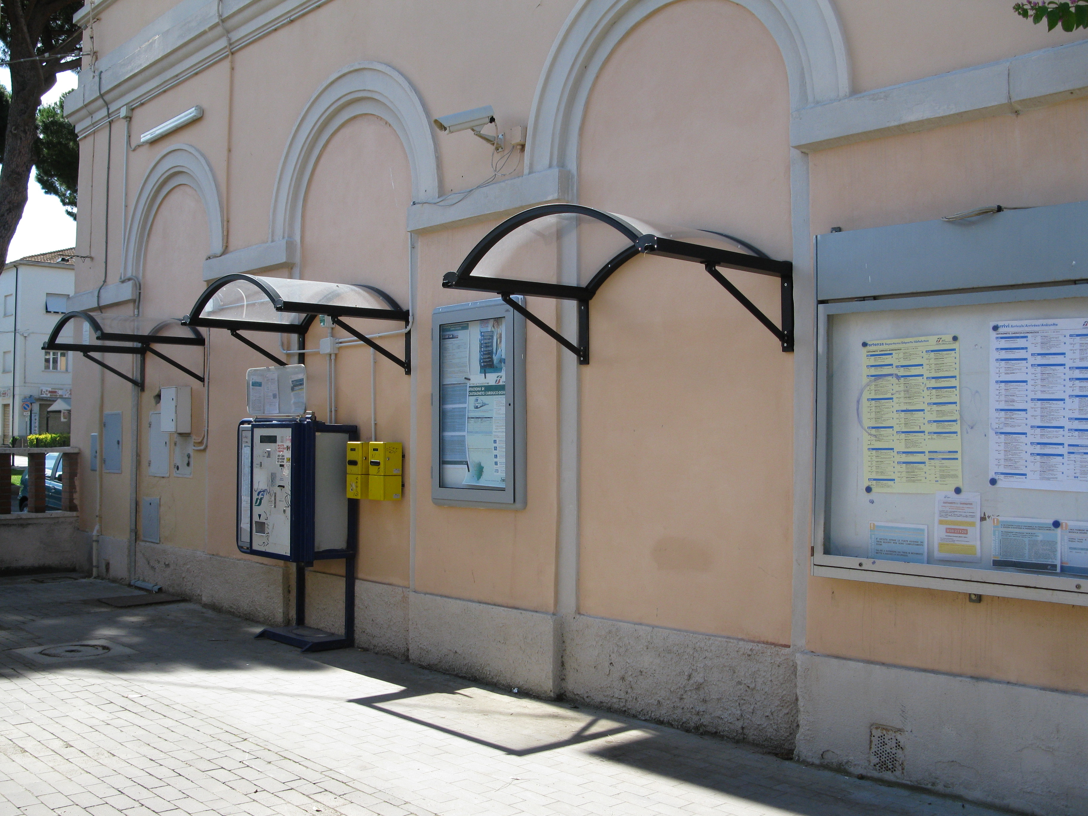 Castagneto Carduccci-Donoratico railway station, ticket machine